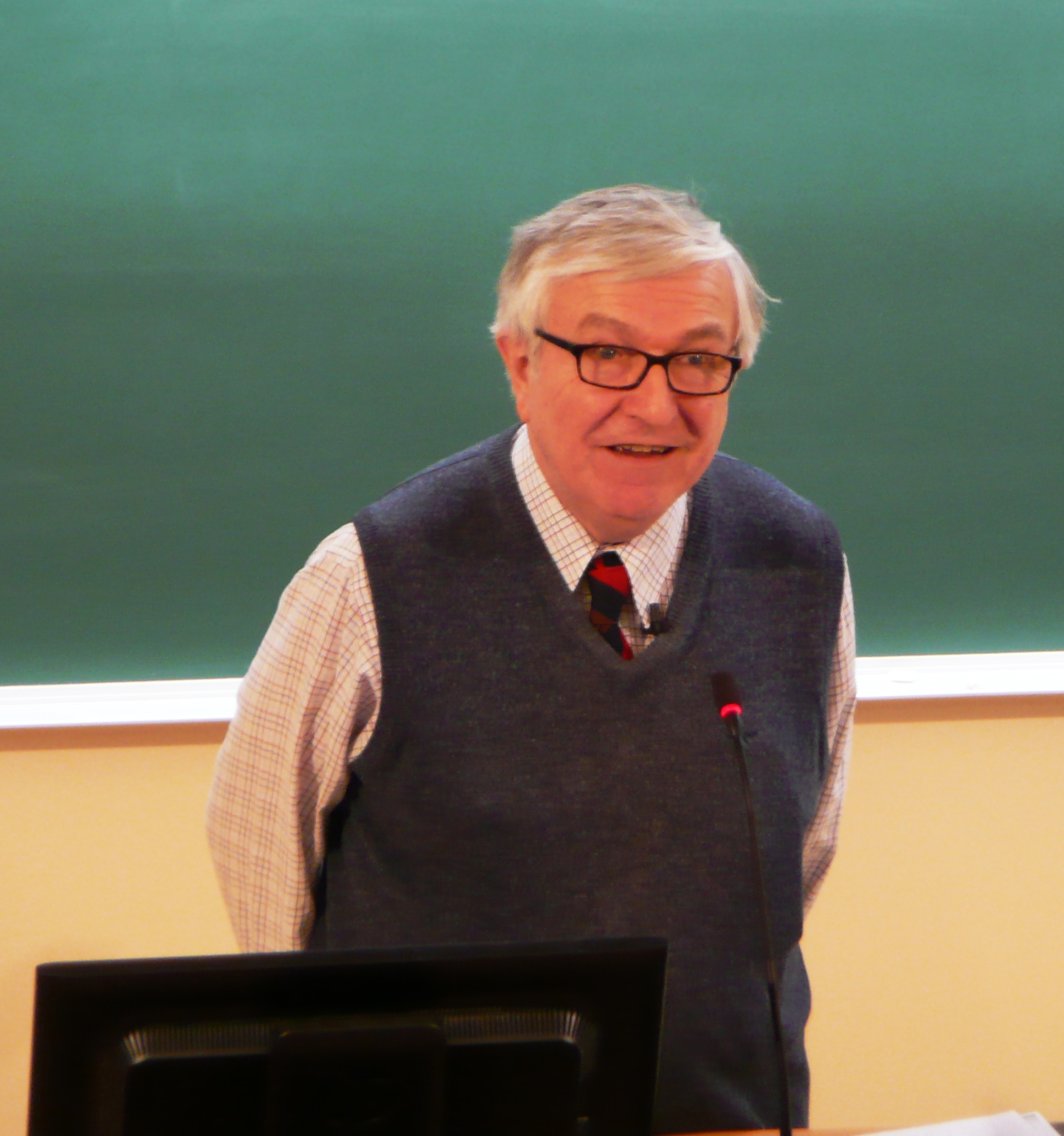 Stephen Bann (*1942) is an English art historian.